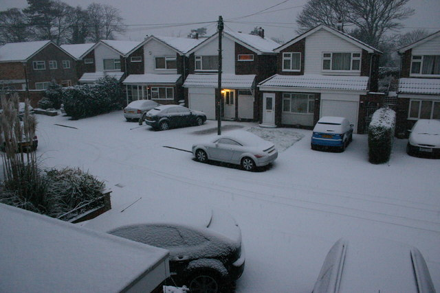 Snowy Day in Water Orton Snow covered street, (Jaques Close), in Water Orton.